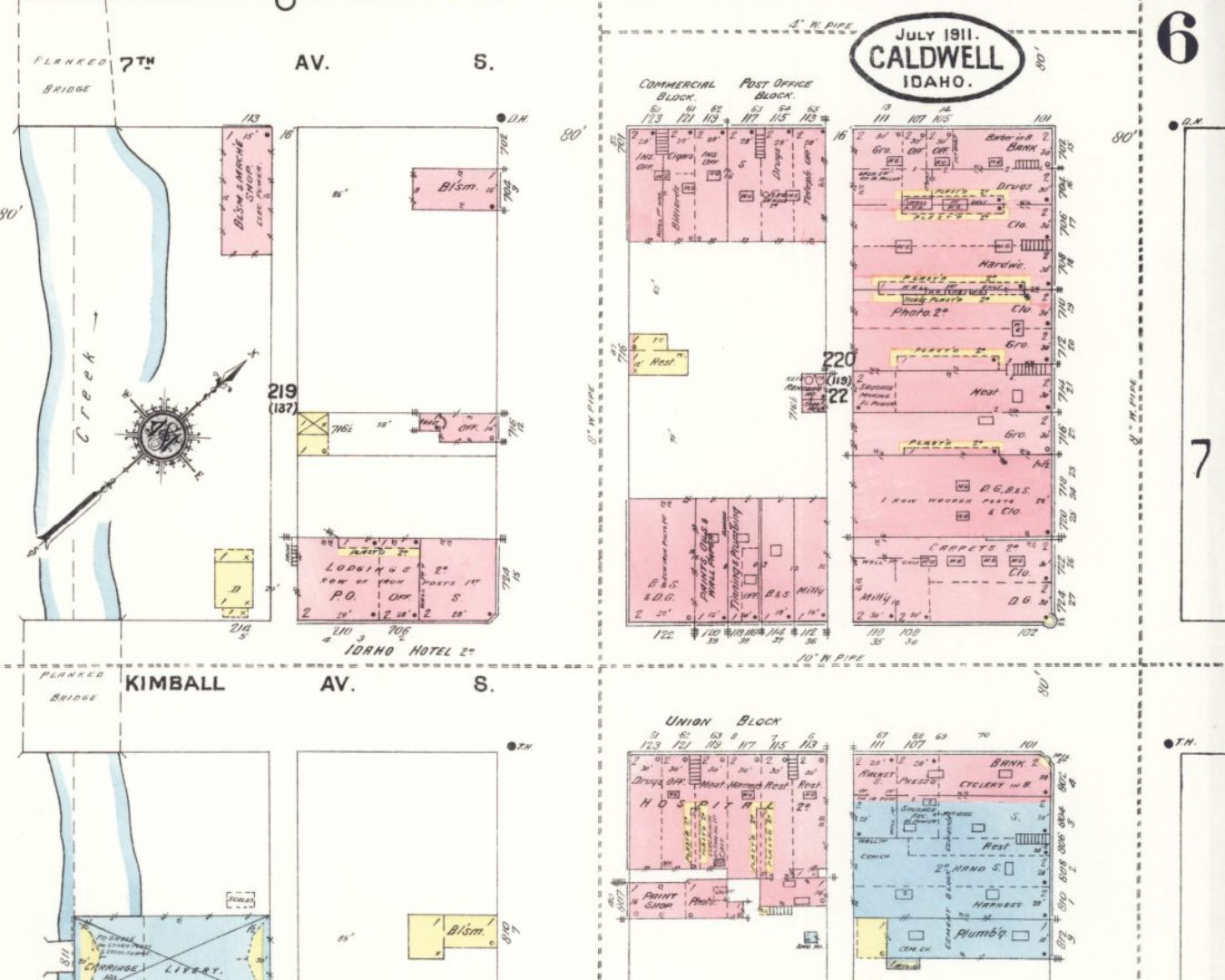 The Caldwell Historic District is partially mapped on the upper right of the image. Not shown is the Ballantyne Building outside lower right. Starting at top center then right, the buildings are Lowell Block, Rice Building, Commercial Building; down, the buildings are Commercial Building, Steunenberg Block, Egleston Block, Roberts Building, Creative Printing, Oakes Brothers Store, Harmon Building. Across Kimball, lower right, Western Building.